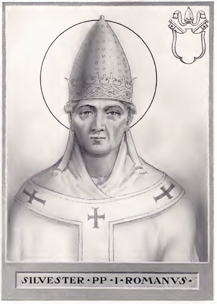 This illustration is from The Lives and Times of the Popes by Chevalier Artaud de Montor, New York: The Catholic Publication Society of America, 1911. It was originally published in 1842.